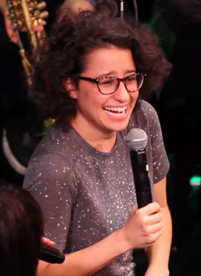 Screenshot from a video in which Catie Lazarus interviews comedians Ilana Glazer and Abbi Jacobson